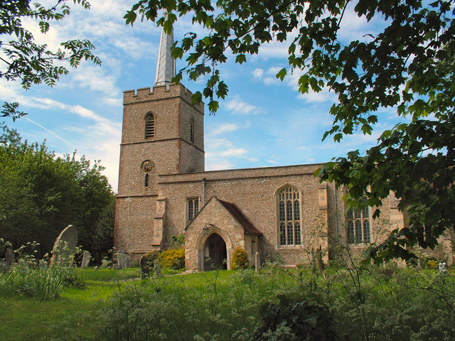 St John the Baptist Church, Cottered. The Church has just received £28,000 from English Heritage for repairs to its east end